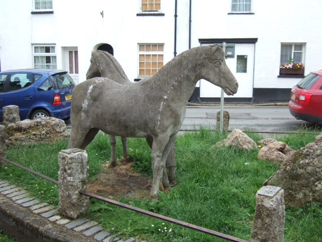 Sculpture of two Dartmoor ponies, Moretonhampstead The Pound Street Triangle is the site of several sculptures relating to Dartmoor. The lead artist for this part of the Dartmoor Flight Public Arts Project was Roger Dean of Exeter.